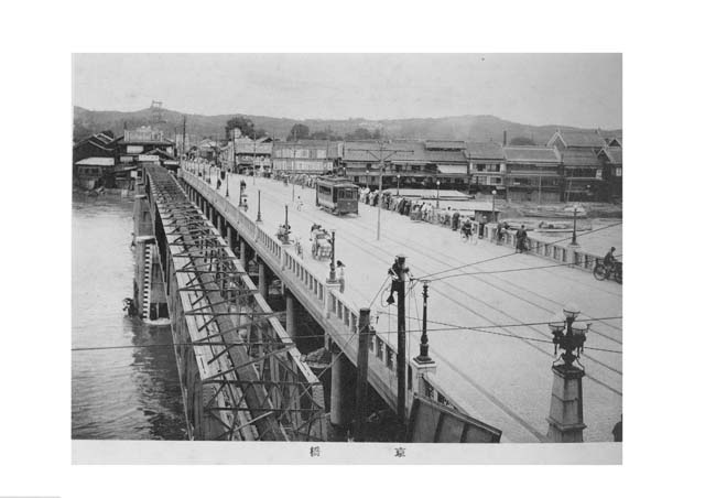 Kyobashi bridge over Asahi river.